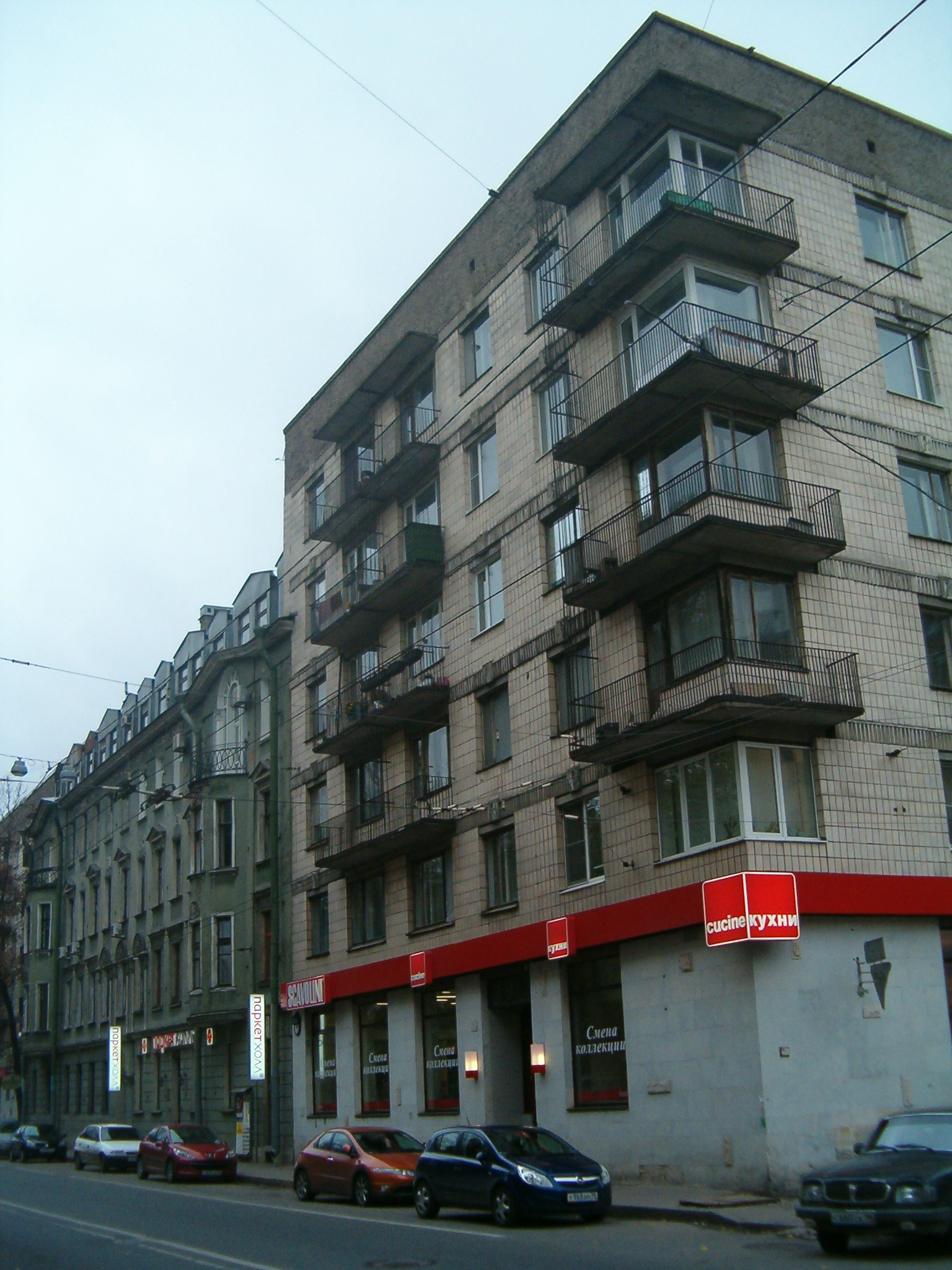 Bolshaya Pushkarskaya street, 48, crossing with Podkovyrova street, Saint-Petersburg, Russia.